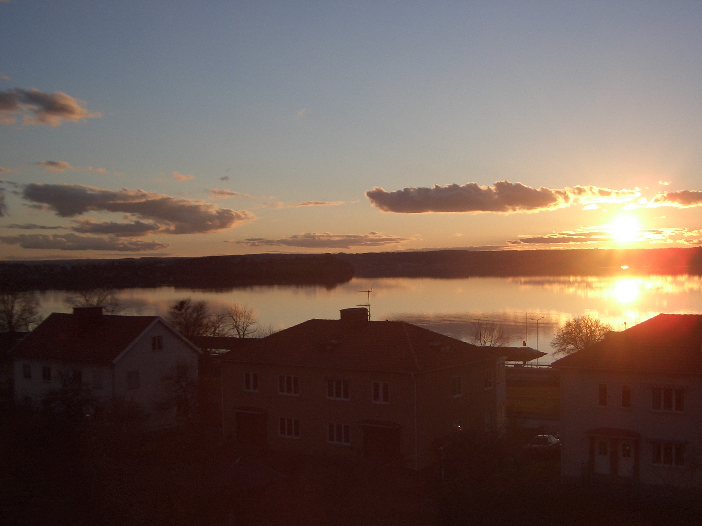 View from Norrängen.